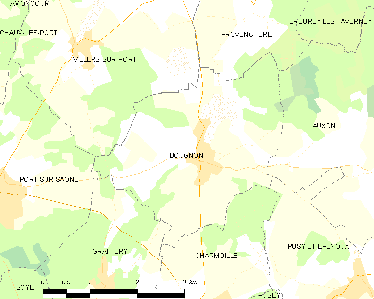 Map of French municipality